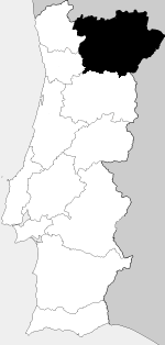 Former province of Trás-os-Montes e Alto Douro, Portugal Created by User:Brian Boru in September 2005, based on a map created by Jorge Candeias.